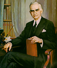 Joseph Wellington Byrns